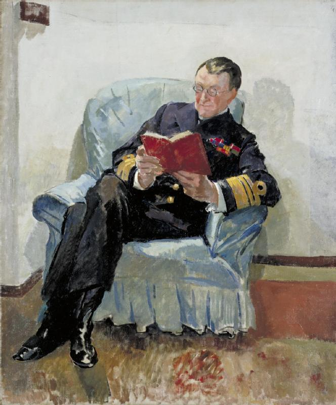 Vice-admiral the Hon Sir Somerset A. Gough-calthorpe, Gcmg, Kcb, Cvo on Board "hms Superb" at Constantinople, 1918 image: A full-length portrait of the Vice-Admiral sitting in an armchair reading a book. He is wearing full uniform and a pair of glasses.